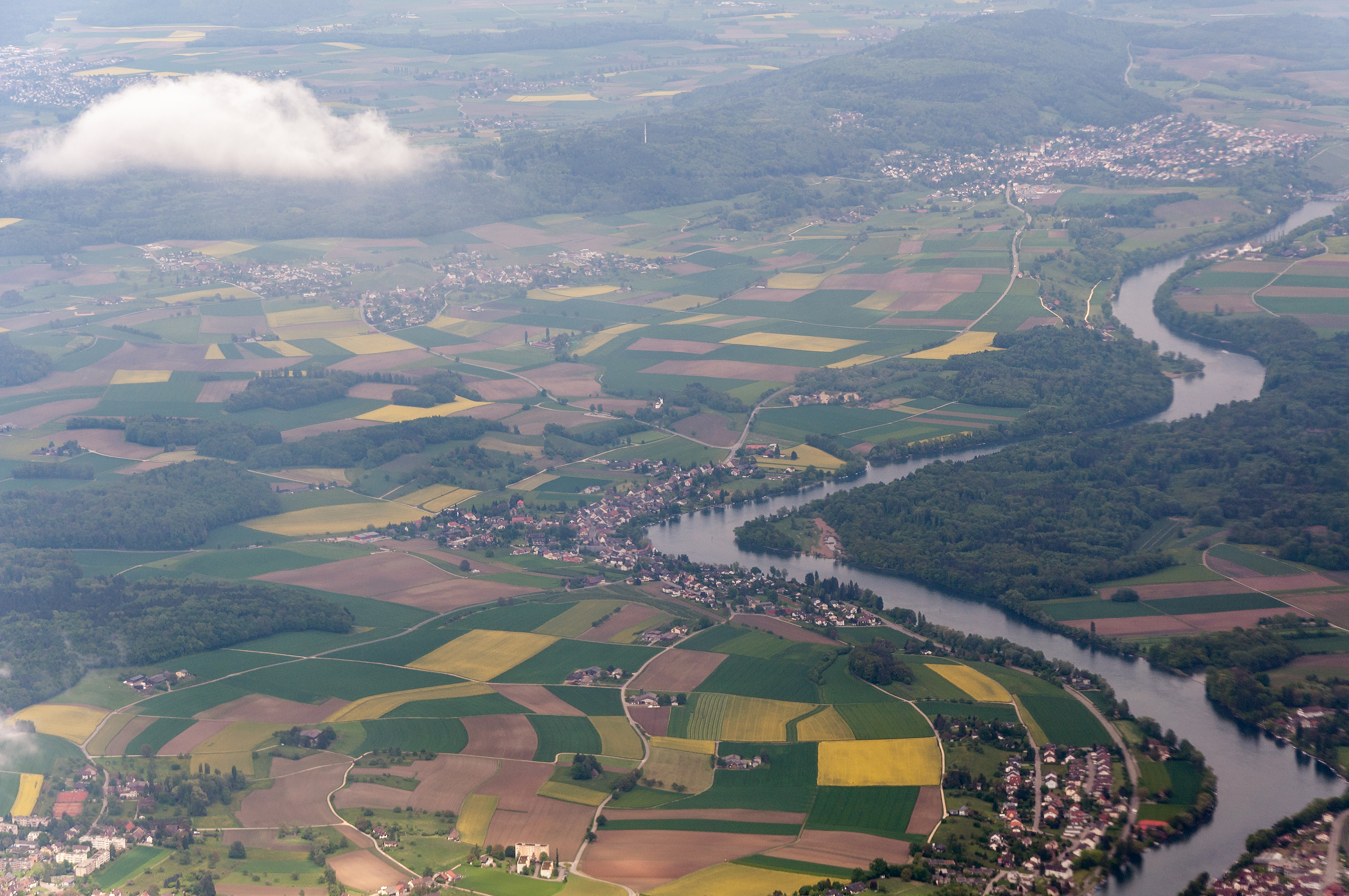 Switzerland, Canton of Schaffhausen, aerial view of the Rhine with Dörflingen, Büsingen and Gailingen